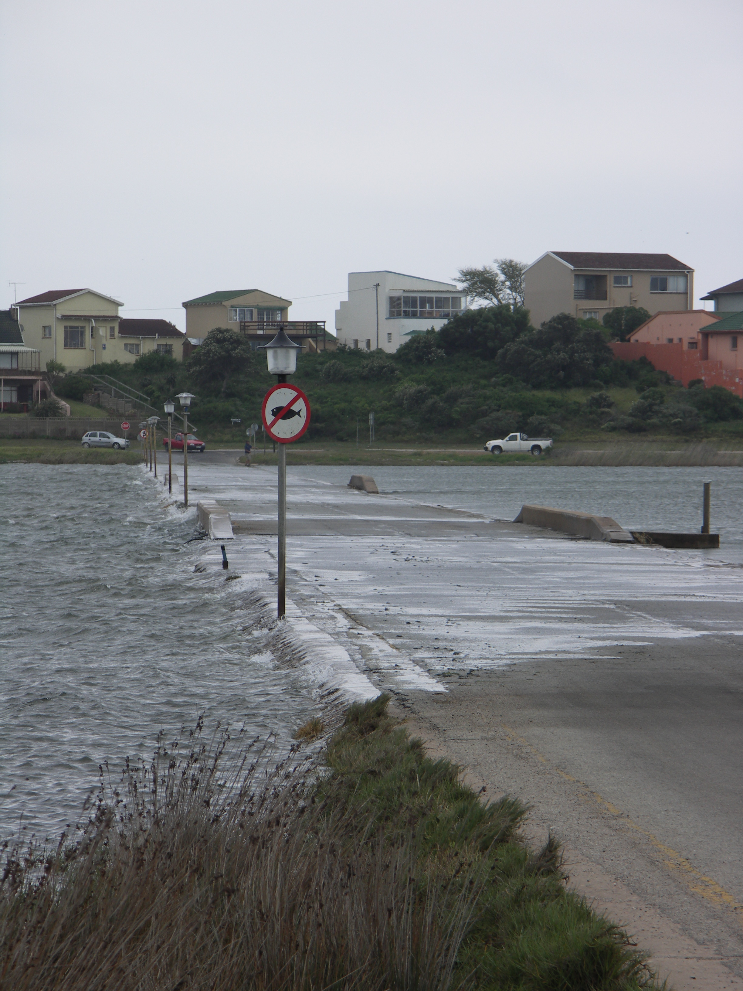 Causeway over the Seekoei River estuary in Aston Bay, Eastern Cape, South Africa.